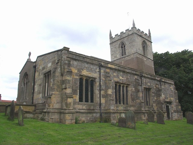 Parish Church of St Peter and St Paul This 12th century church stands on a mound, just above High Street.